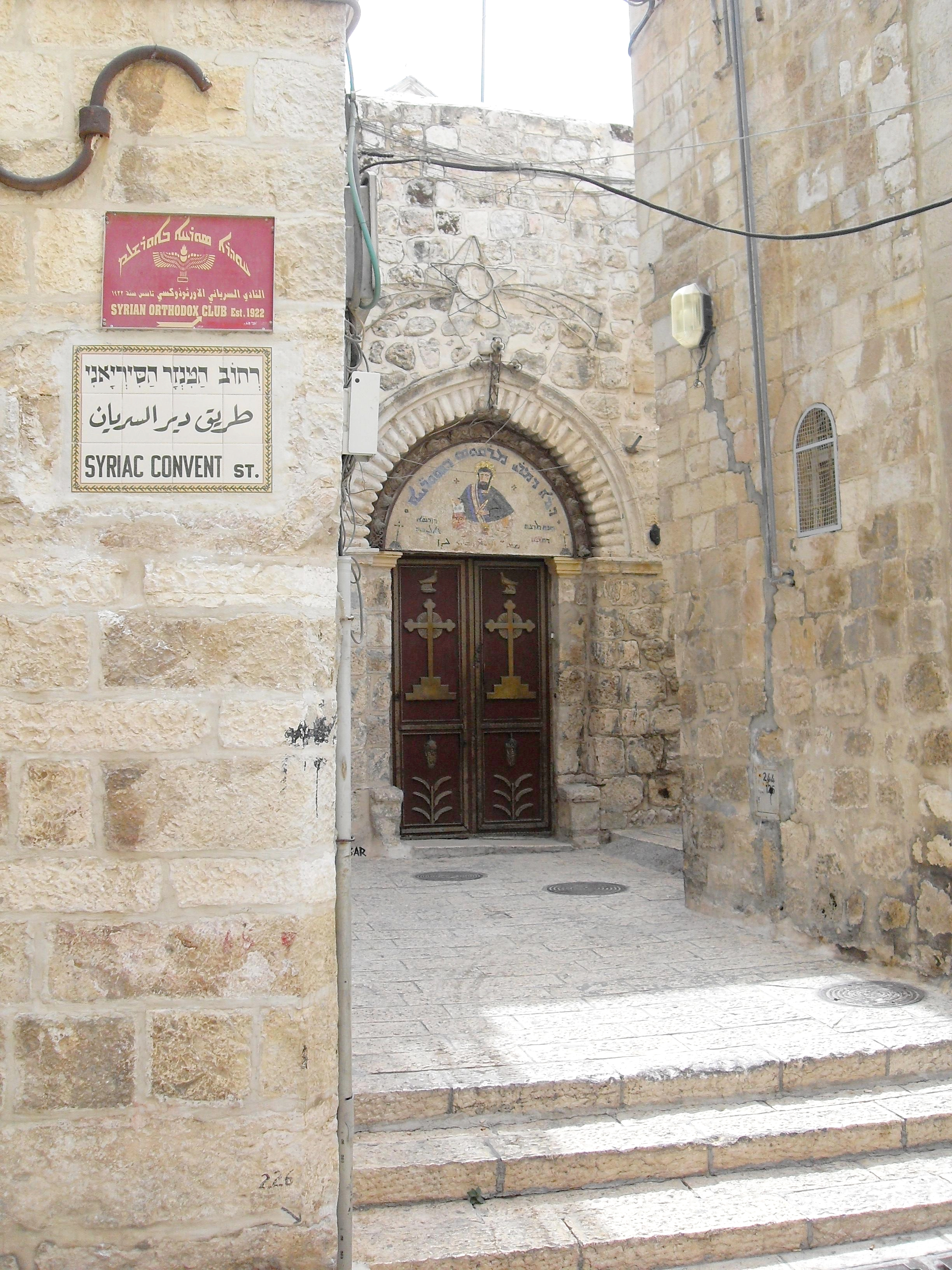 Old Jerusalem St. Mark Church.